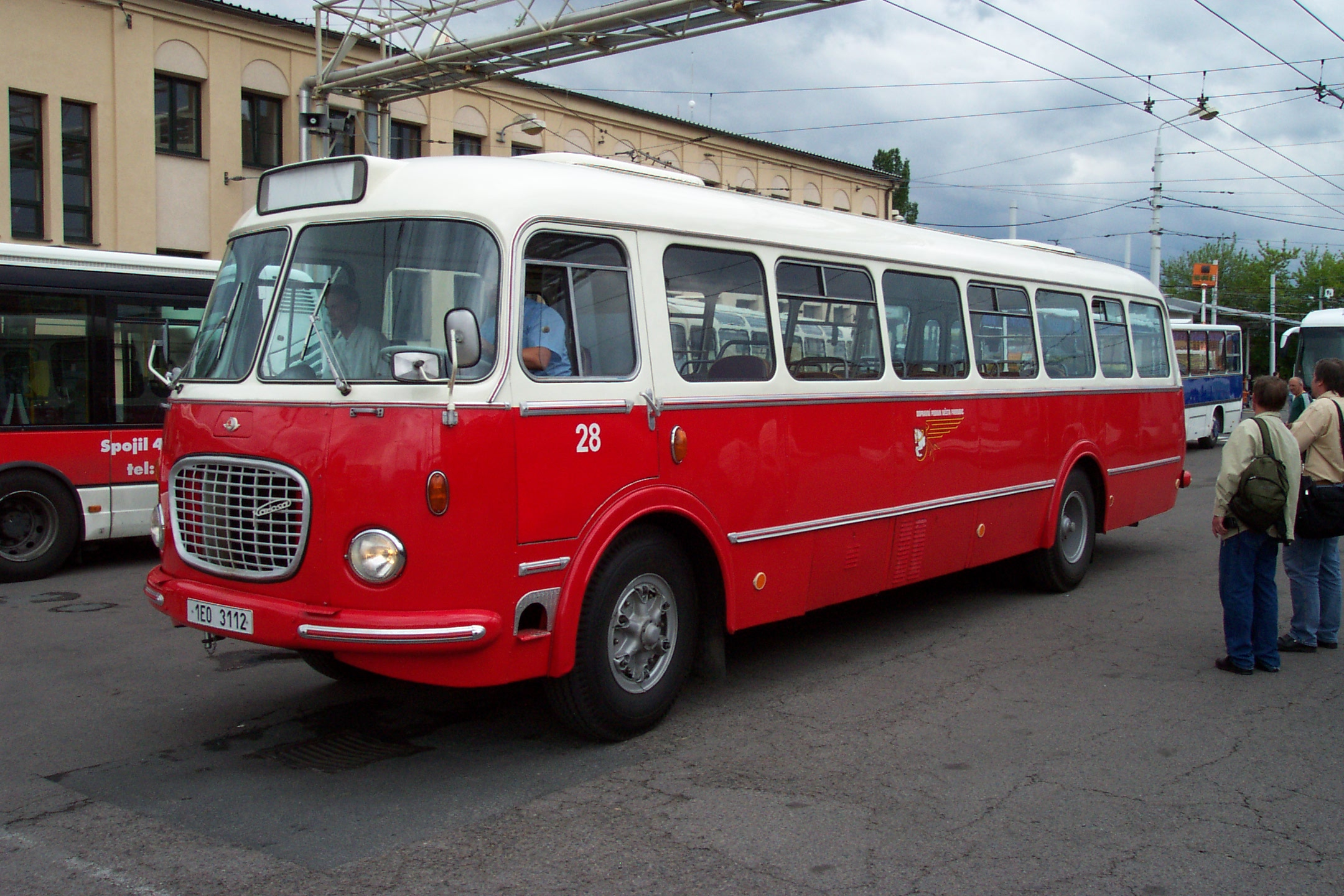 Czech historic bus 1965 Škoda RTO at the 55 years of trolleybus transport in Pardubice